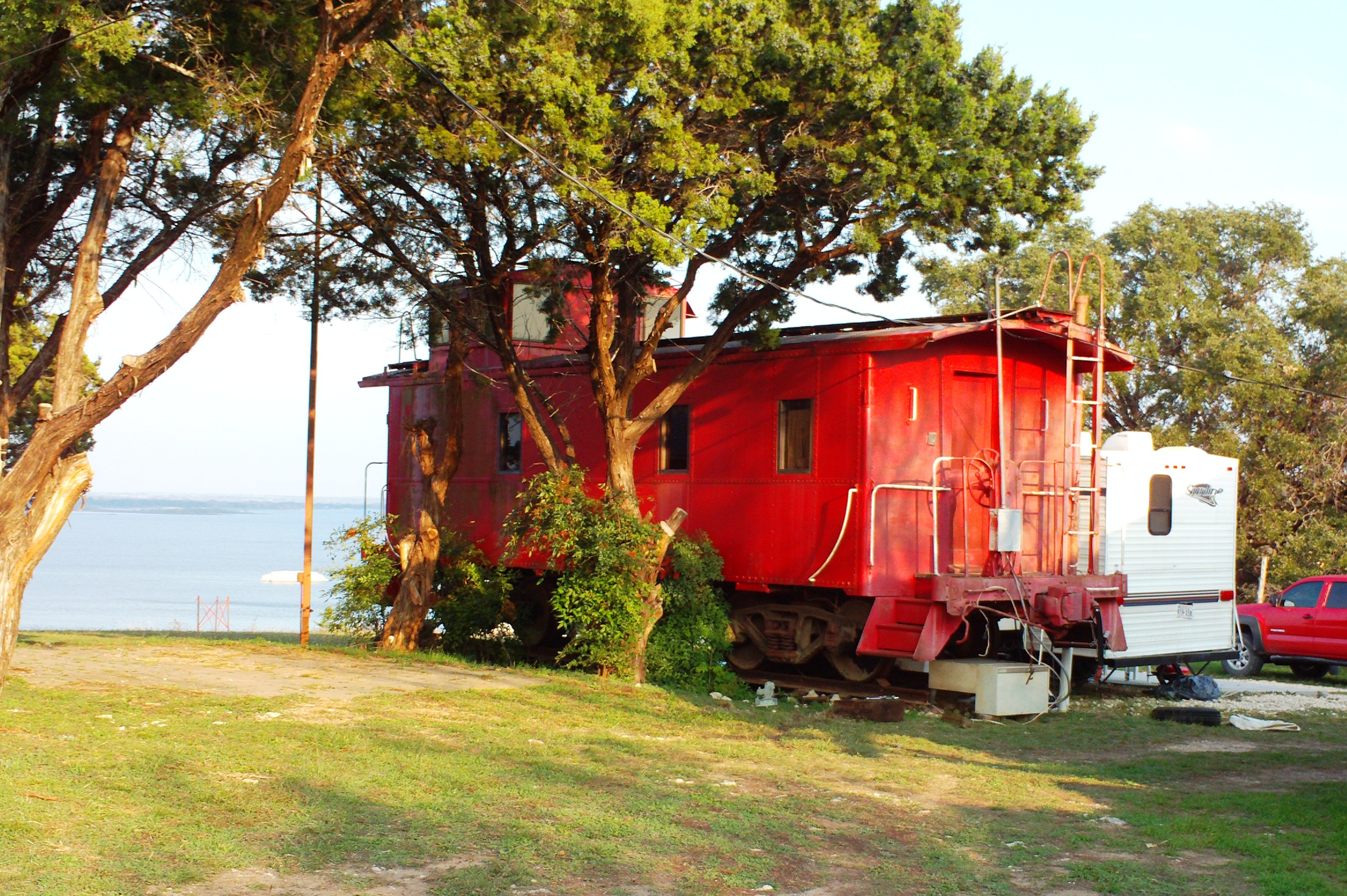 The red caboose located on the north Lake Whitney Ranch property.